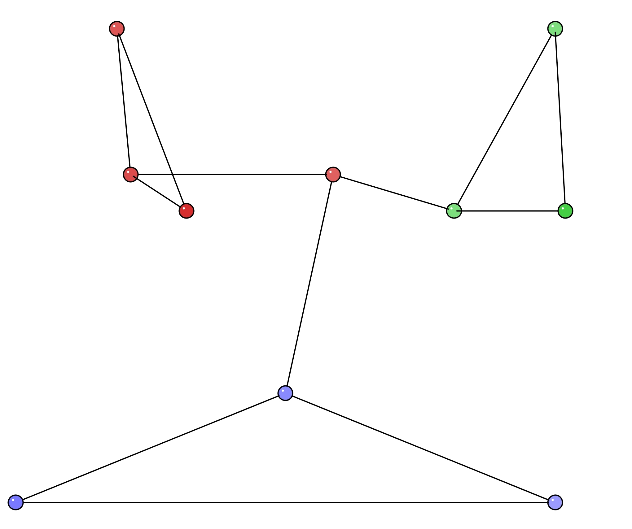 Sample network with 10 nodes and 12 edges. Red, green and blue nodes depict 3 separate communities.